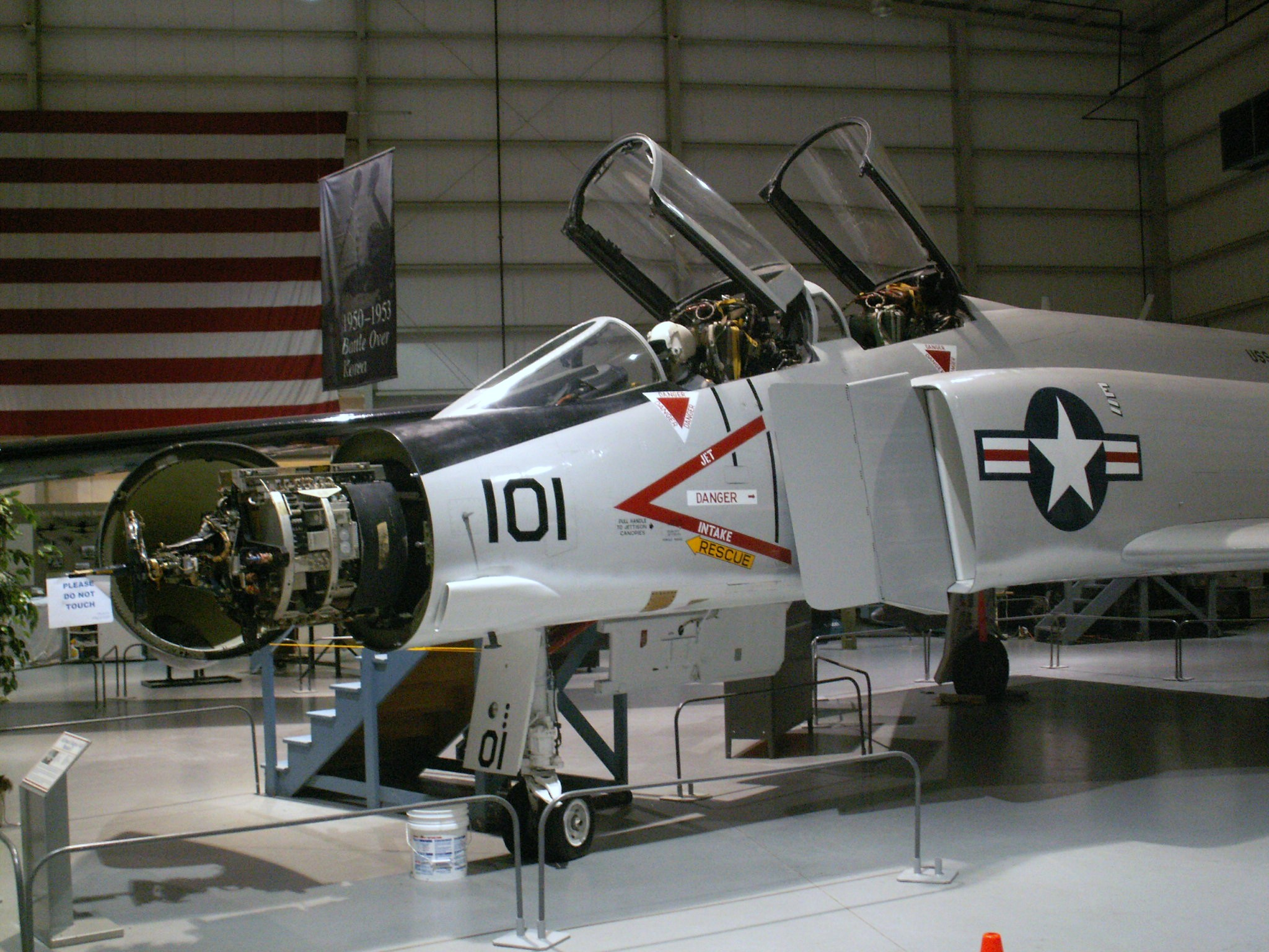 A former U.S. Navy McDonnell F-4B Phantom II fighter (BuNo 152256) in the Wings of Eagles Discovery Center in Horseheads, New York (USA), showing the AN/APQ-72 air intercept radar. The aircraft is painted in the markings of Fighter Squadron VF-21 Free Lancers, Attack Carrier Air Wing 2 (CVW-2) aboard the aircraft carrier USS Ranger (CVA-61) in the 1960s.